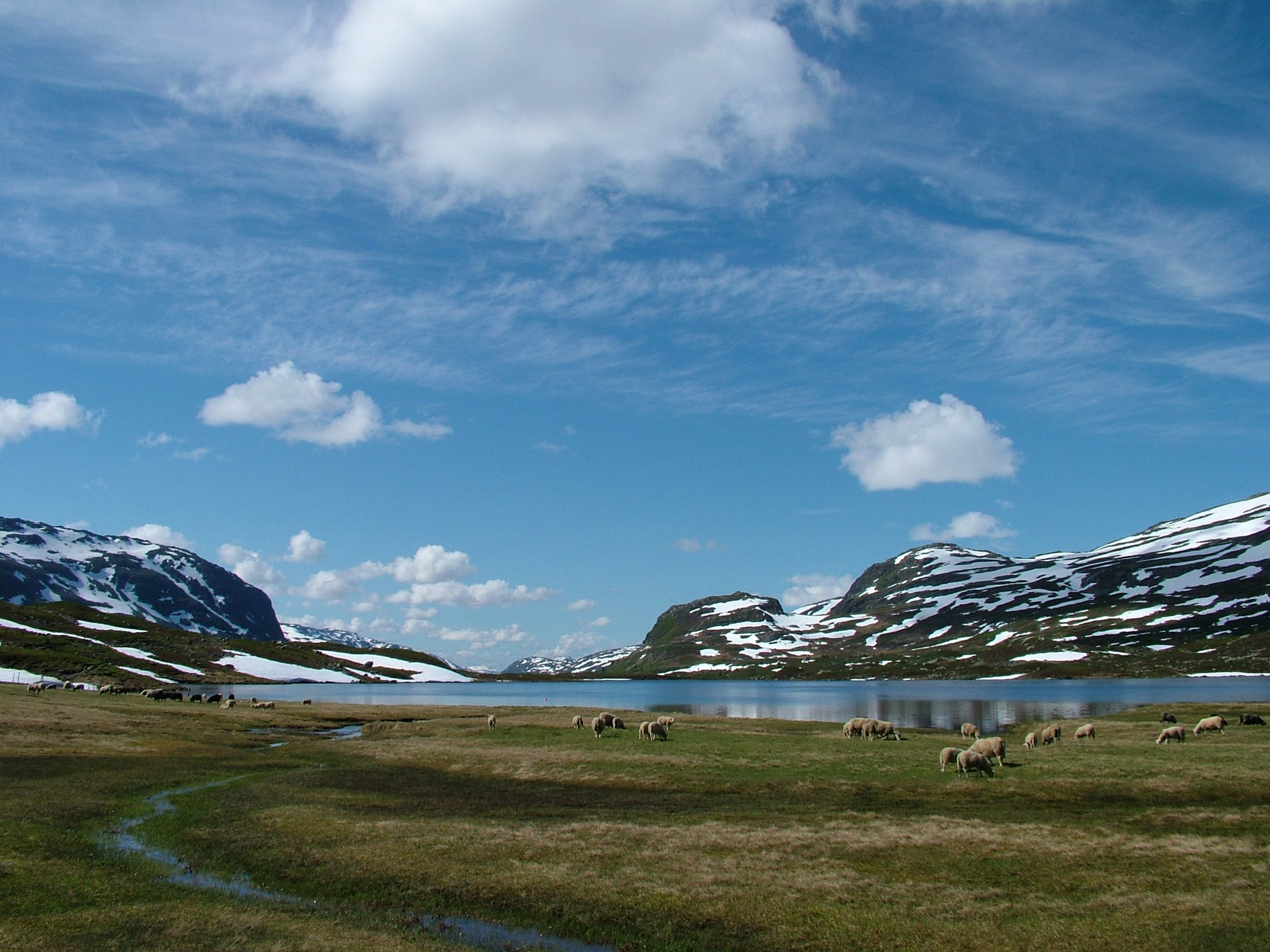 View on one of the lakes in Hardangervidda national park, Norway.